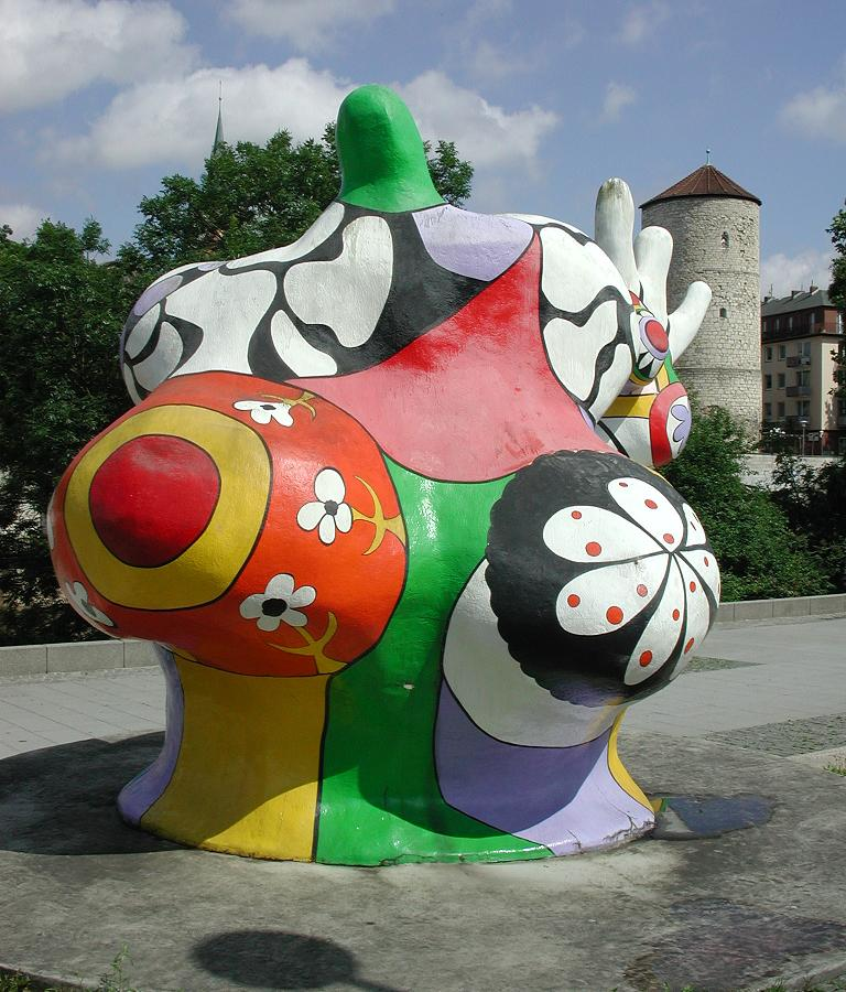 Nanas, 1974. Sculpture by Niki de Saint Phalle. Location: Leibnizufer, Hannover, Germany.